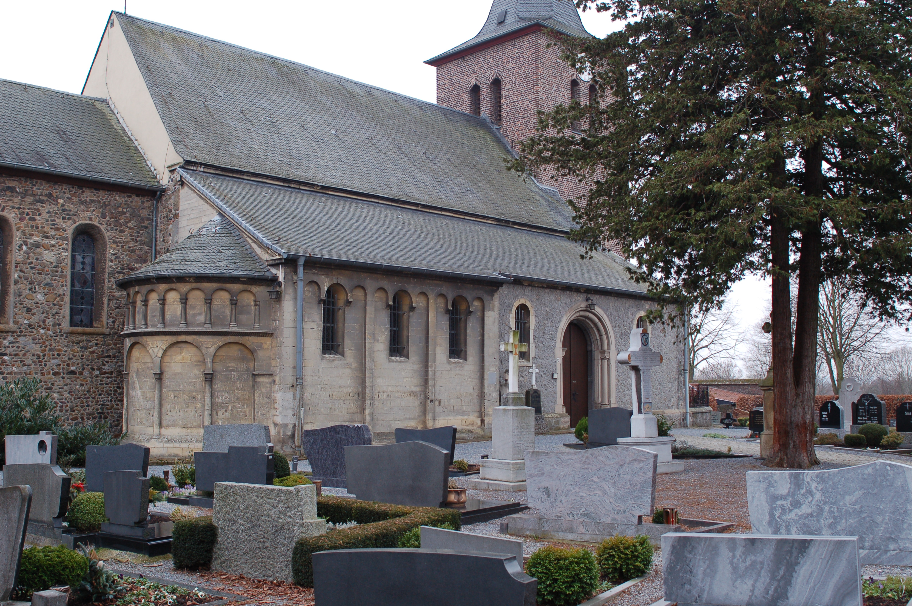 Church in Millen, Selfkant